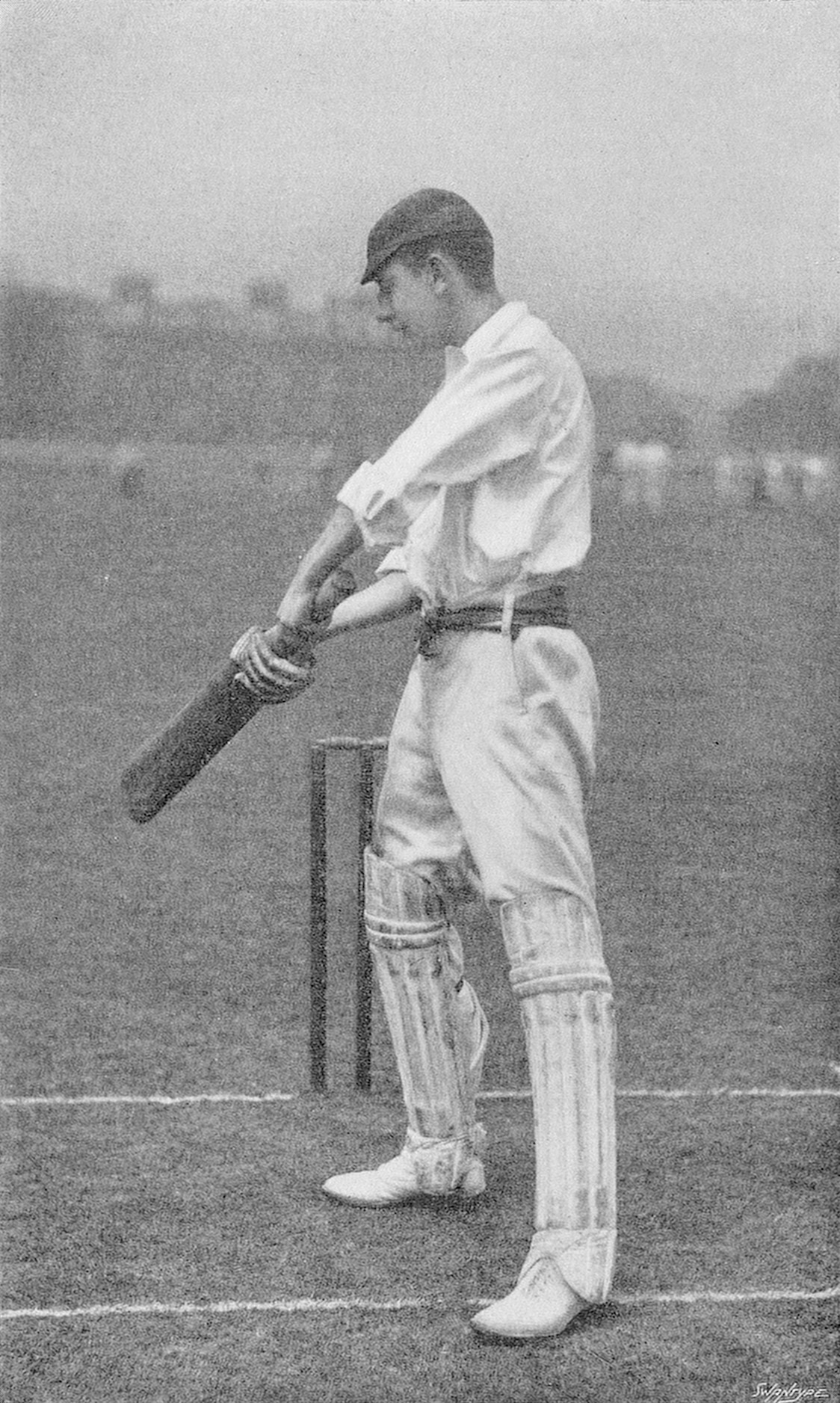 "H. D. G. Leveson-Gower's push-stroke in the slips."